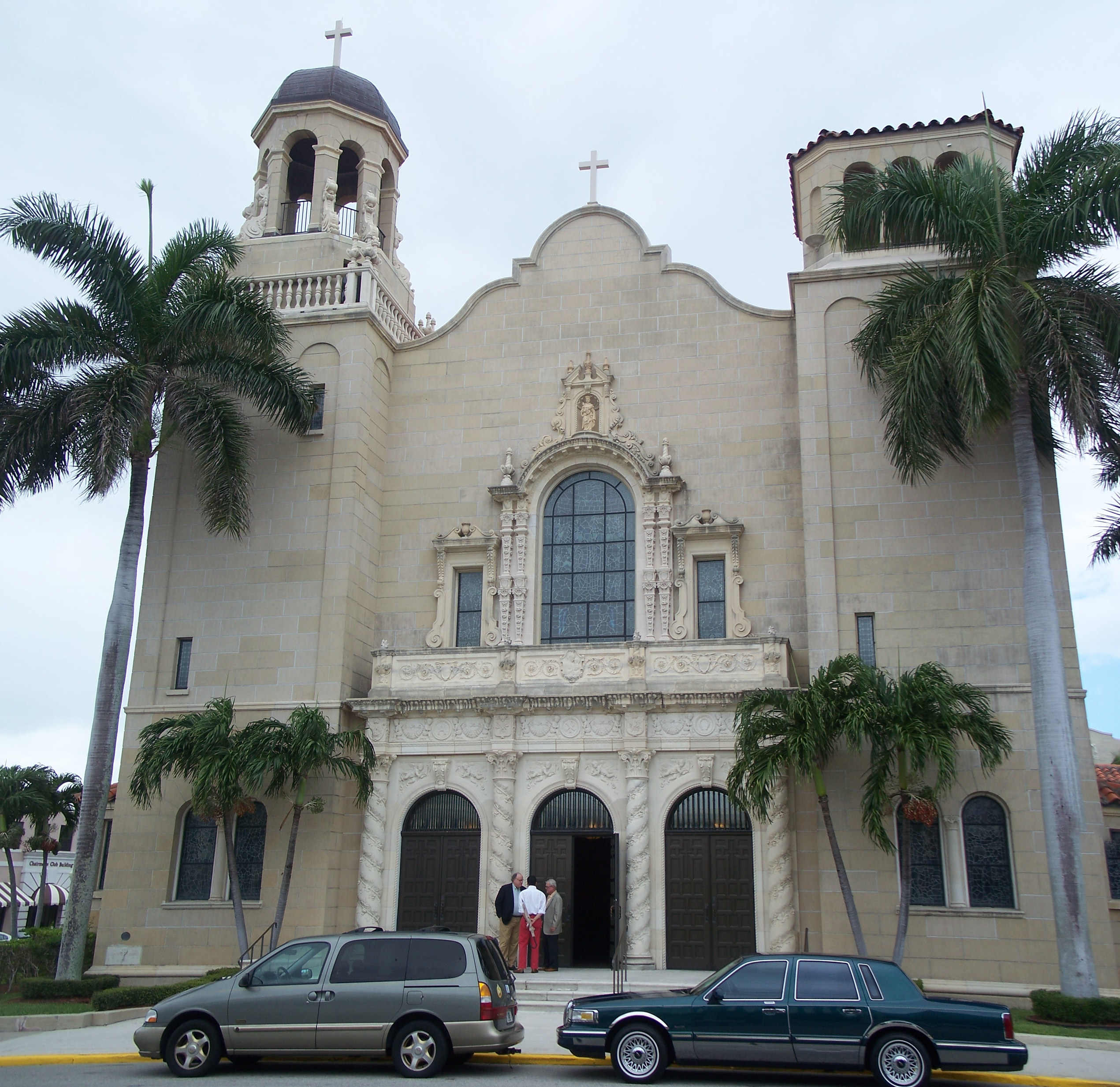 Palm Beach, Florida: St. Edward's Roman Catholic Church